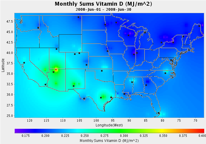 UVB Vitamin D Solar Radiation Graph Here is the website this image was taken from: This image is a "Contour Map", which is generated from a query. The image is from the UV-B Monitoring Program, a division of the United States Department of Agriculture so is "public domain" and can be accessed by anyone with a web browser. Sums Contour Maps Daily sum values represent an integration over time. Basically by summing the readings over the number of seconds in the measurement period, the units of radiant power are converted to radiant energy and are useful for studying daily effects related to daily exposure. Current available values are Caldwell biological spectral weighting function, Flint biological spectral weighting function, erythemally weighted irradiance, UV-A irradiance, UV-B irradiance and Vitamin D. Similarly, it is also possible to view the sums of biologically weighted indices over monthly or annual periods from selections on this page. Contour graphs of the data are available for any time selection. The graphs will be displayed along with a tabular view of the data used to create the graphs. We also provide a feature to export the data to a file on your local computer in a comman delimited(CSV) format.